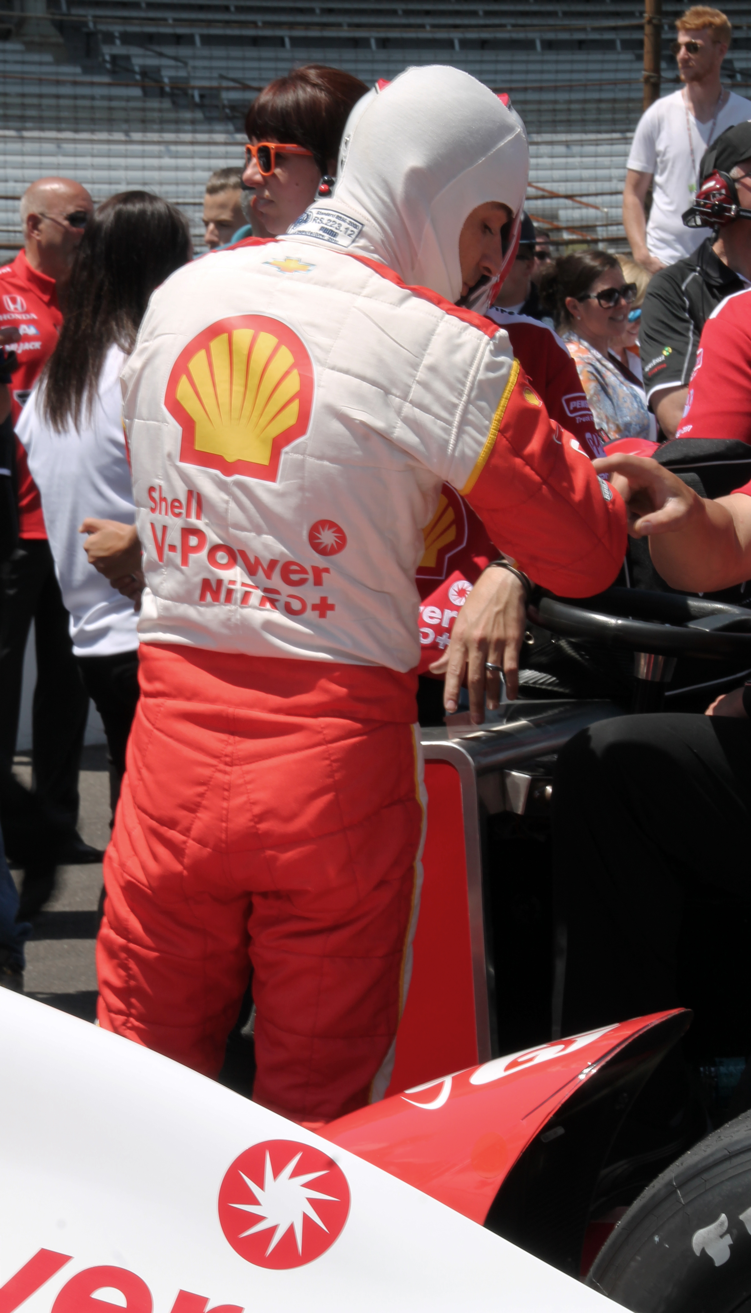 Hélio Castroneves prepares for the Pit Stop Challenge at Carb Day 2015 at the Indianapolis Motor Speedway